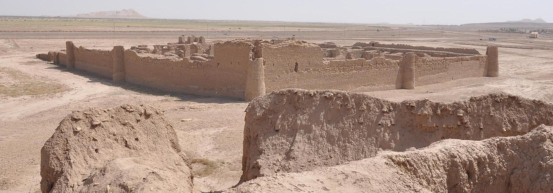 Panorama of Caravanserai Sangi-Mohammadabad